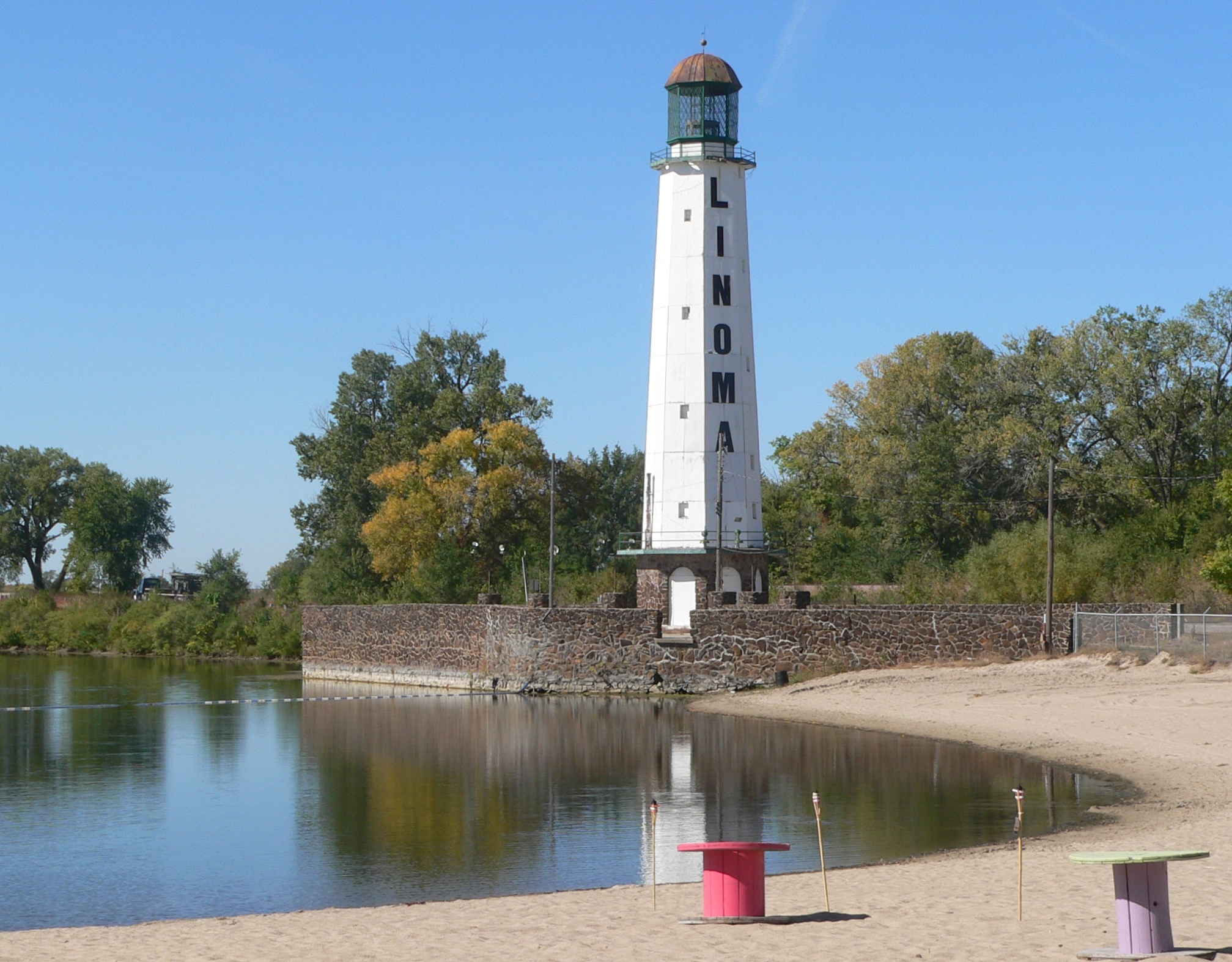 Linoma Beach, located at U.S. Highway 6 crossing of Platte River in Sarpy County, Nebraska. The beach resort is listed in the National Register of Historic Places.